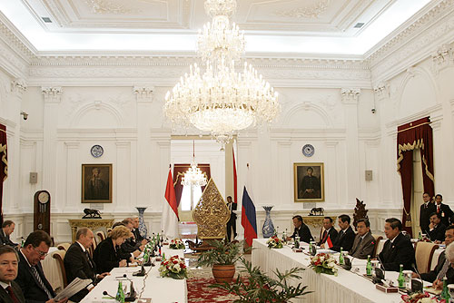 JAKARTA. Russian-Indonesian talks in an extended format.